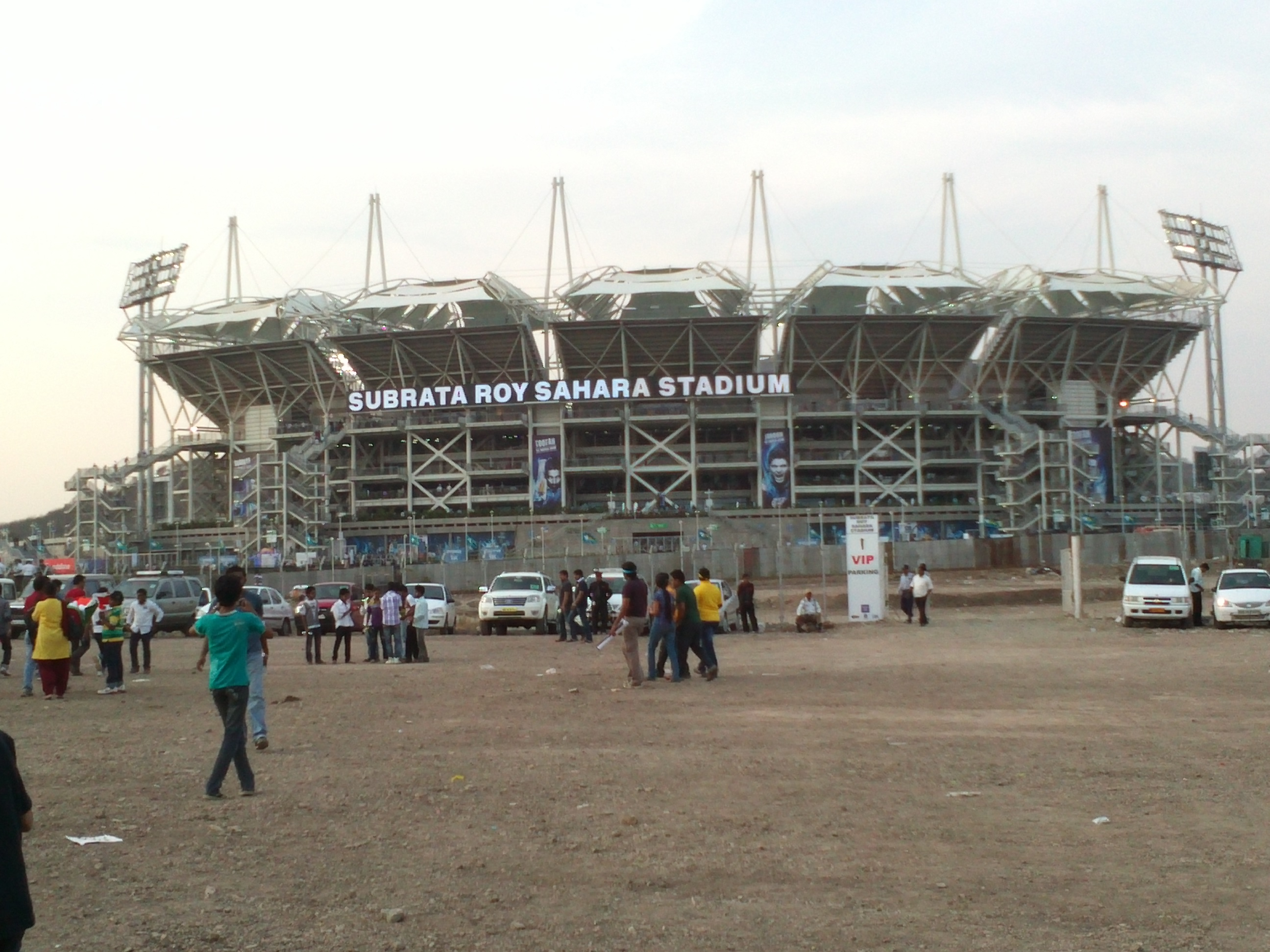 Subrata Roy Sahara Stadium, Pune